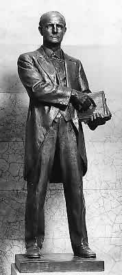 Statue of Charles Brantley Aycock at NSHC